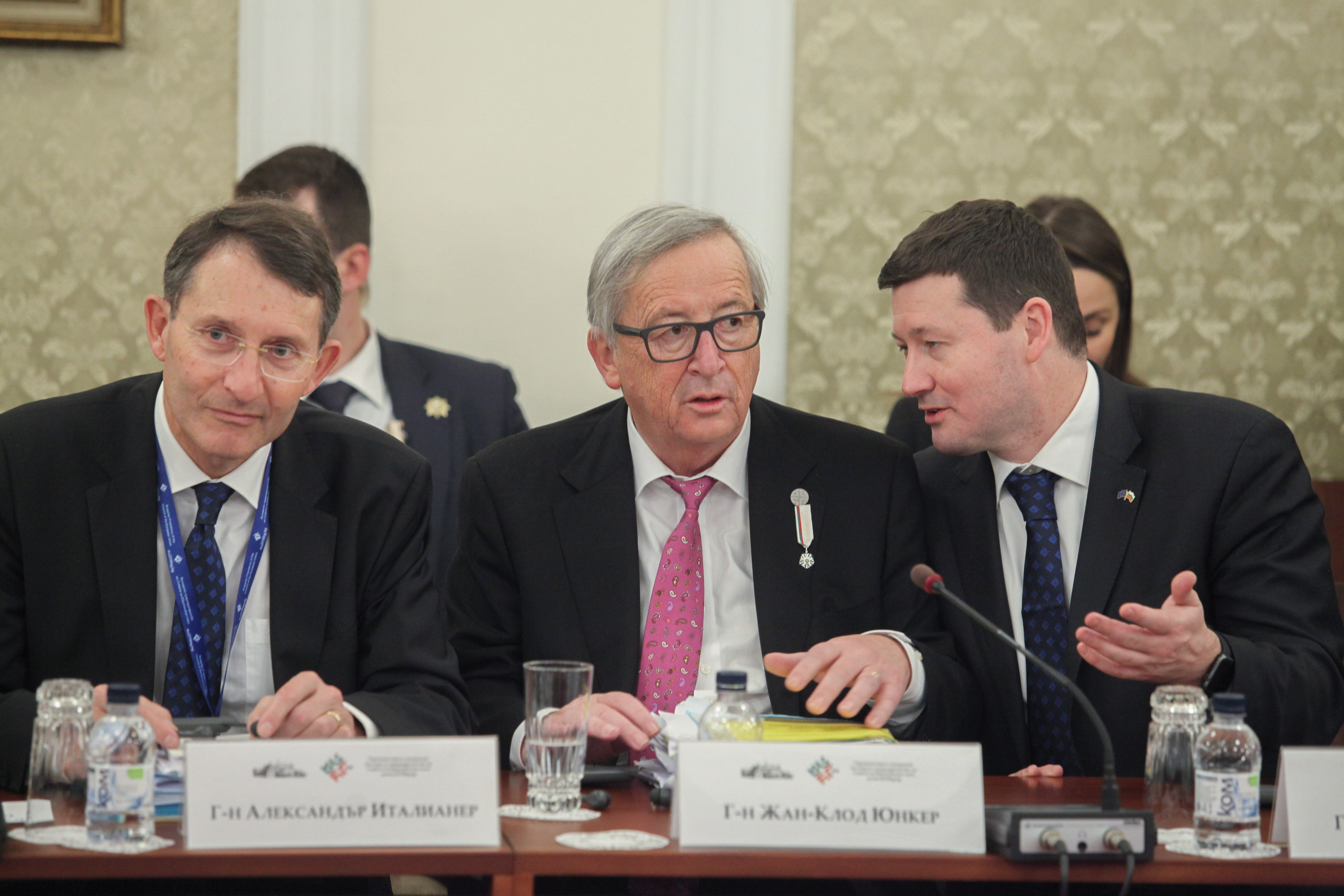 Alexander Italianer, Secretary-General (left), Jean-Claude Juncker, President of the European Commission (center), Martin Selmayr, Head of Cabinet of Juncker (right) Photo: Plamen Stoimenov (EU2018BG)